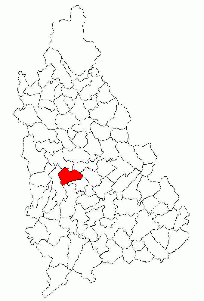 Location map of Lucieni Commune in Dambovita County, Romania